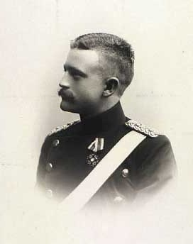 Niels Peter Høeg Hagen (1877-1907), Danish army officer, cartographer, and arctic explorer